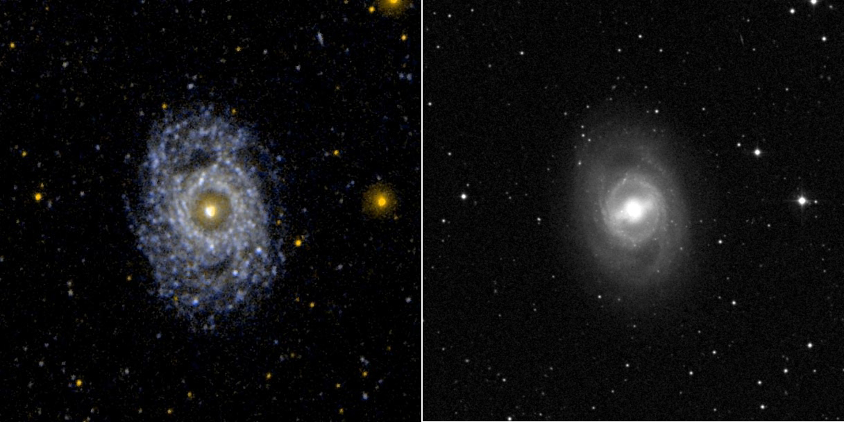 Ultraviolet image (left) and visual image (right) of the face on barred and ringed spiral galaxy NGC 3351 (M95). The morphological appearance of a galaxy can change dramatically between visual and ultraviolet wavelengths. In the case of M95, the nucleus and bar dominate the visual image. In the ultraviolet, the bar is not even visible and the ring and spiral arms dominate.